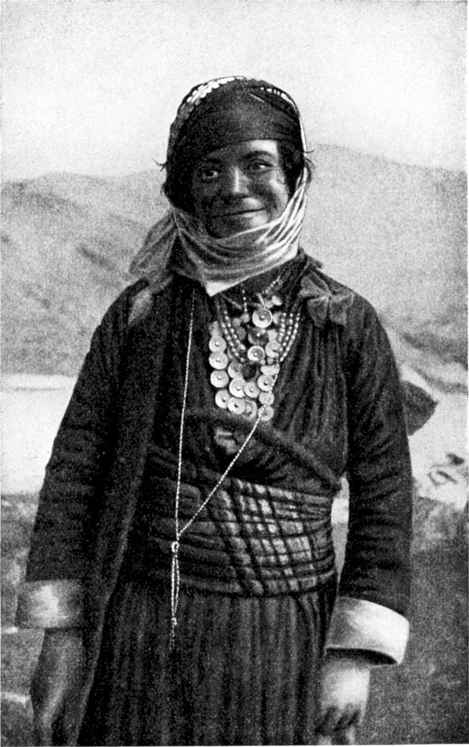 Woman of Mount Ararat.She belongs to the ethno-religious group of the Yazidis, who worship God and seven angels. They living in middle east and are indigenous to mesopotamia.